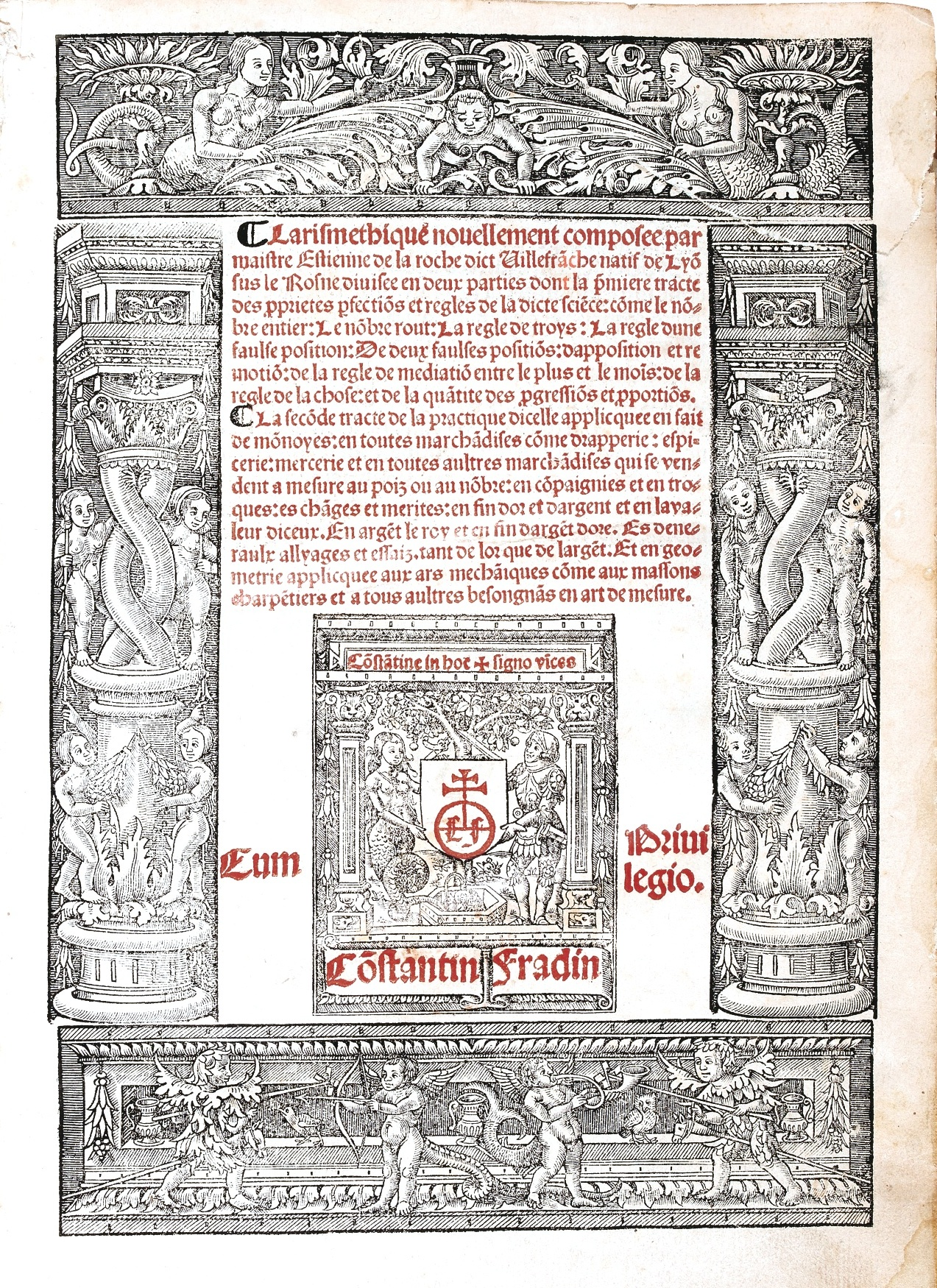 Title page of Estienne de La Roche, Larismethique nouvellement composee, Lyon, printed by Guillaume Huyon for Constantin Fradin, 2 June 1520. First edition of de La Roche's treatise, "the best of the early French arithmetics", and the first published work on algebra in French. Title printed in red and black within a woodcut border, woodcut printer's device (Constantin Fradin) on title-page, woodcut initials and diagrams